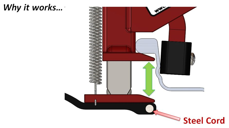 Cross section of the BeadBuster Clamp and Ram mechanism showing how it effeictively breaks a tire bead